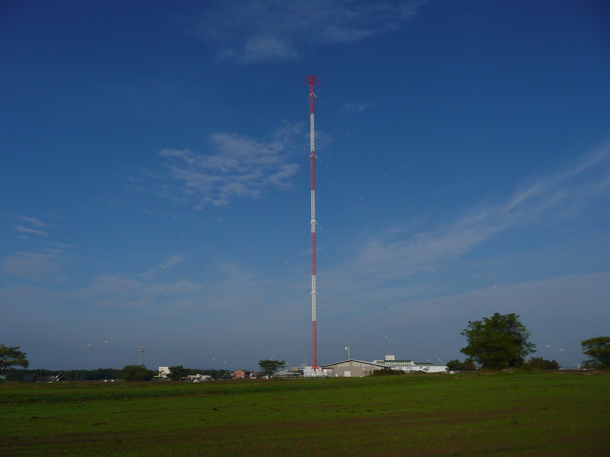 NHK Kumamoto AM Radio 2 (JOGB) - Ozu Transmitting Station